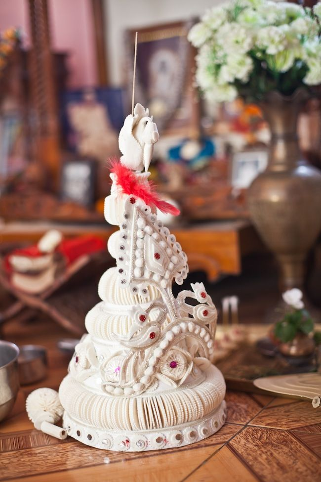 Pair of Topor